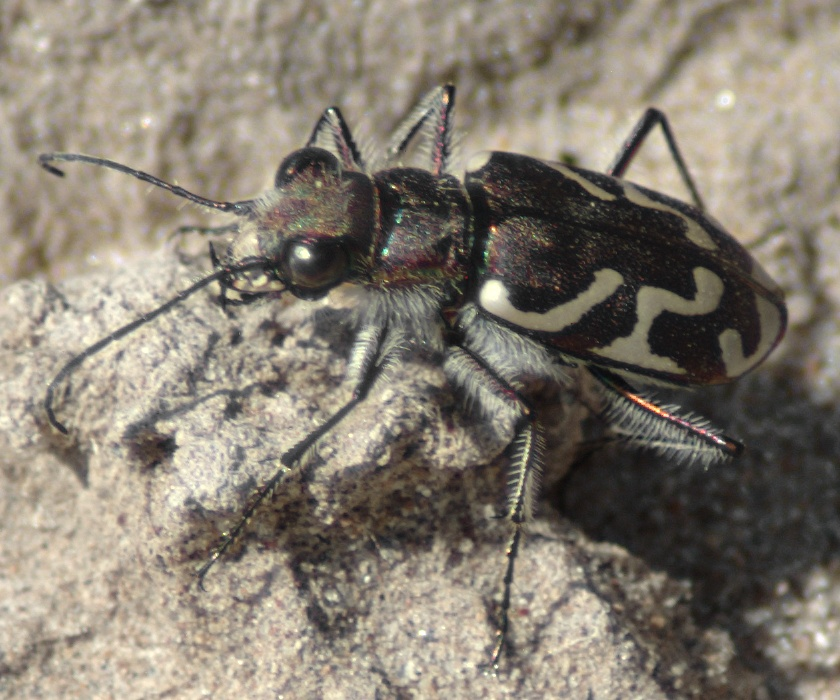 Oblique-lined Tiger Beetle, Cicindela tranquebarica, White Rock Canyon, Los Alamos County, New Mexico. Thanks to the folks at for ID.